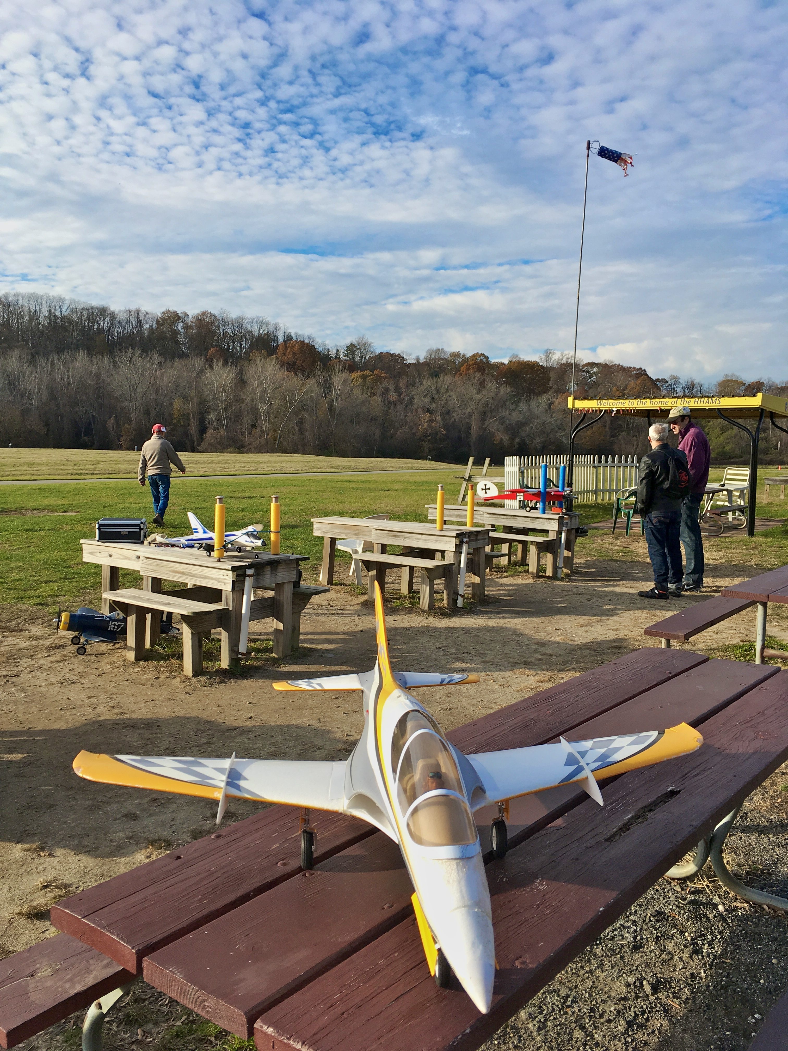 Freewing Avanti S 80mm EDF Jet, a radio-controlled airplane, at the HHAMS Aerodrome.